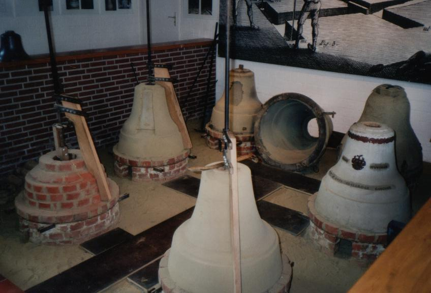 Construction of the moulds for casting of a church bell at the Glockenmuseum Gescher (Geschger Bell Museum). Showing the stages in construction of the outer mould (the cope). The wooden scraper defines the profile of the outer surface of the bell. Not shown is the construction of the inner mould (the drag).